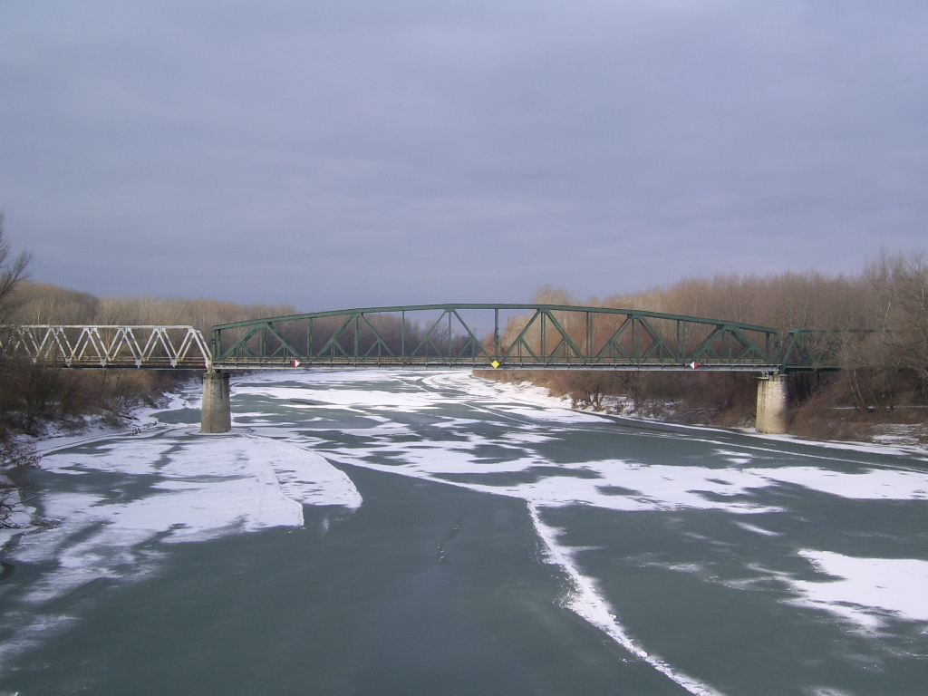 The Algyő railway bridge on the Tisza river, Algyő, Hungary